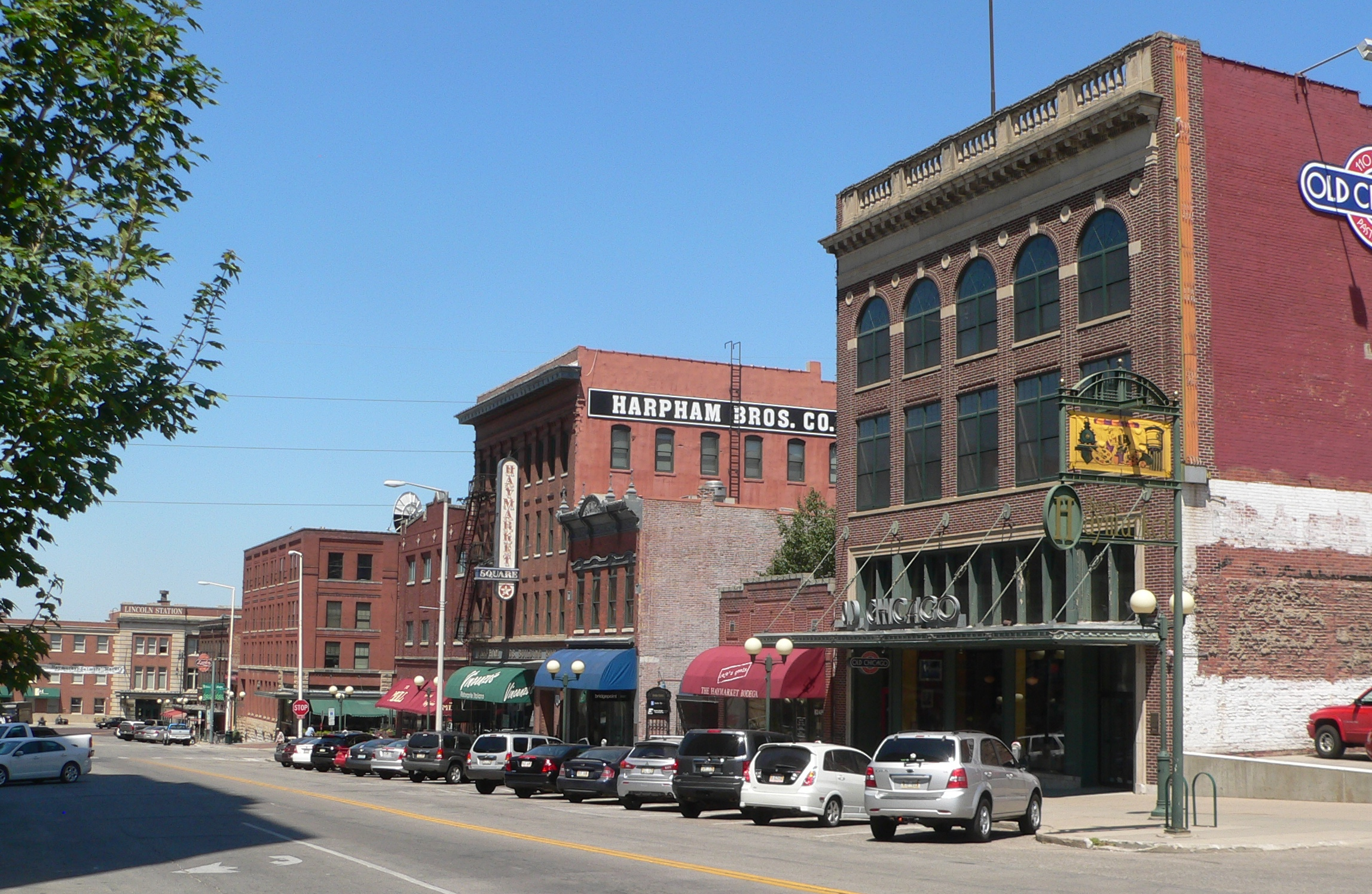 Haymarket District in Lincoln, Nebraska: north side of P Street, looking northwest from about 9th Street.